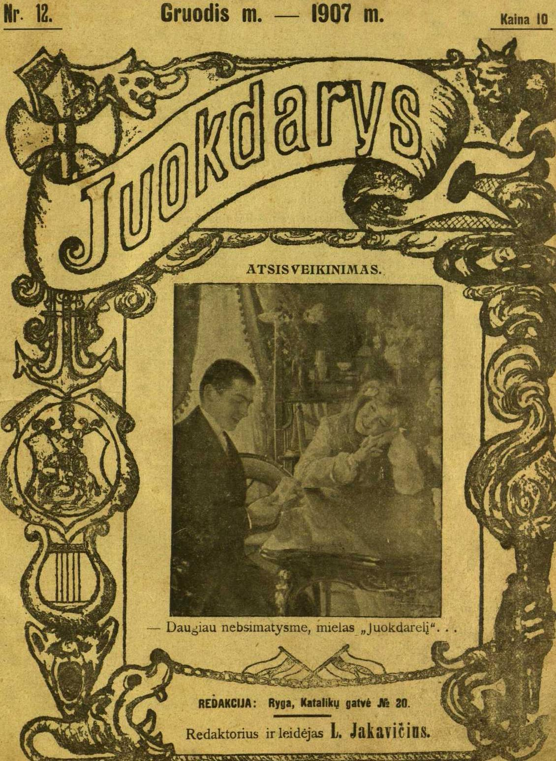 Lithuanian literature.